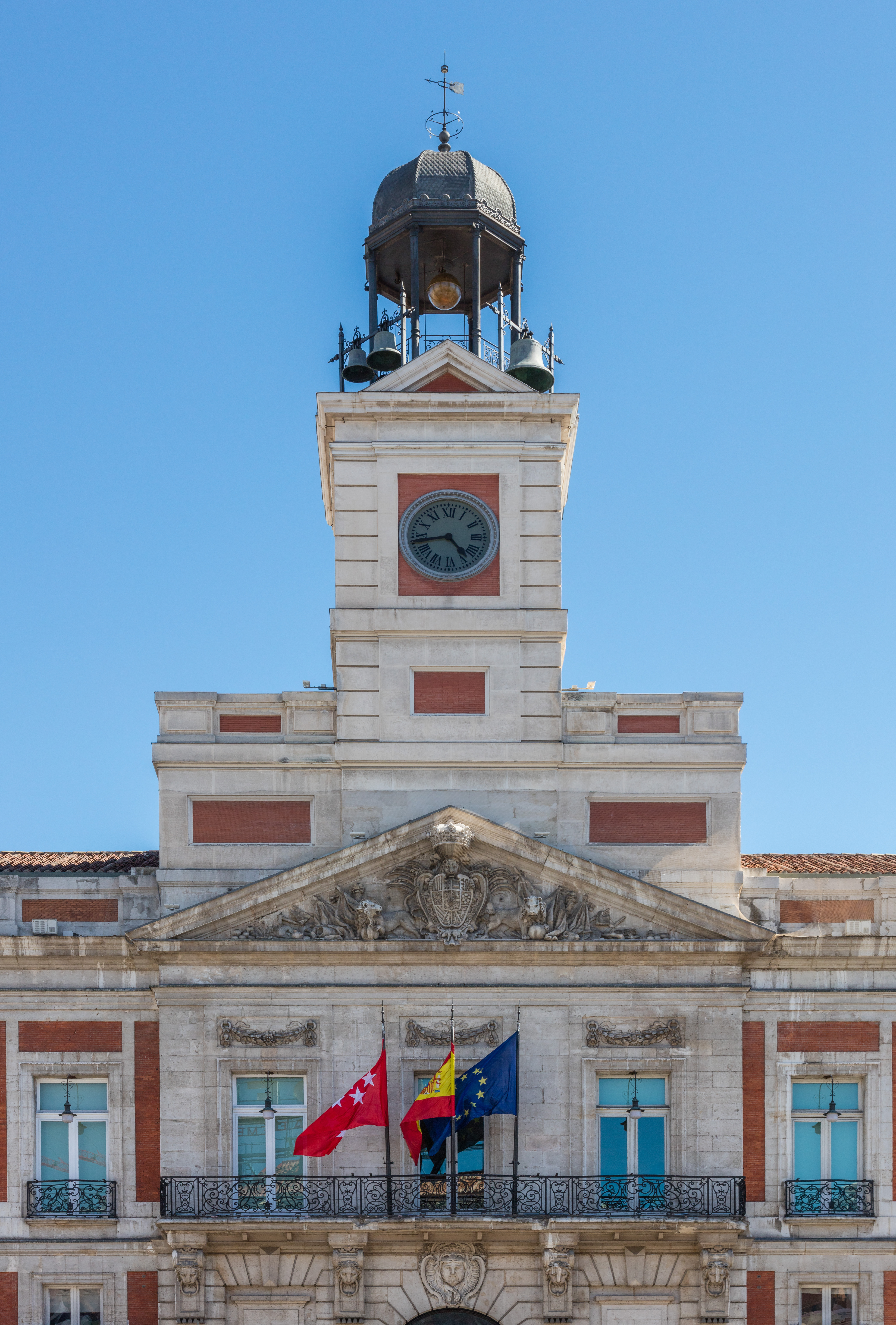 Royal House of Post, Sol Square, Madrid, Spain